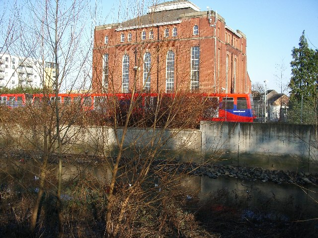 One of London's Other Rivers. The River Ravensbourne flows through south-east London and enters the Thames at Deptford Creek. The Docklands Light Railway follows the river between Lewisham and Deptford. Here the river and DLR train are seen from Brookmill Park, SE14, with waterworks behind. The view is to the east, with the river flowing from right to left.